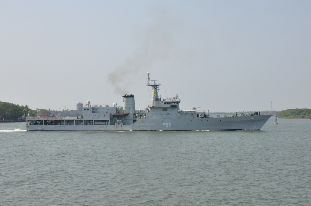 INS Sharada (P55)